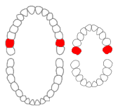 Schematic of maxillary second molars in the human mouth for both permanent and primary teeth.